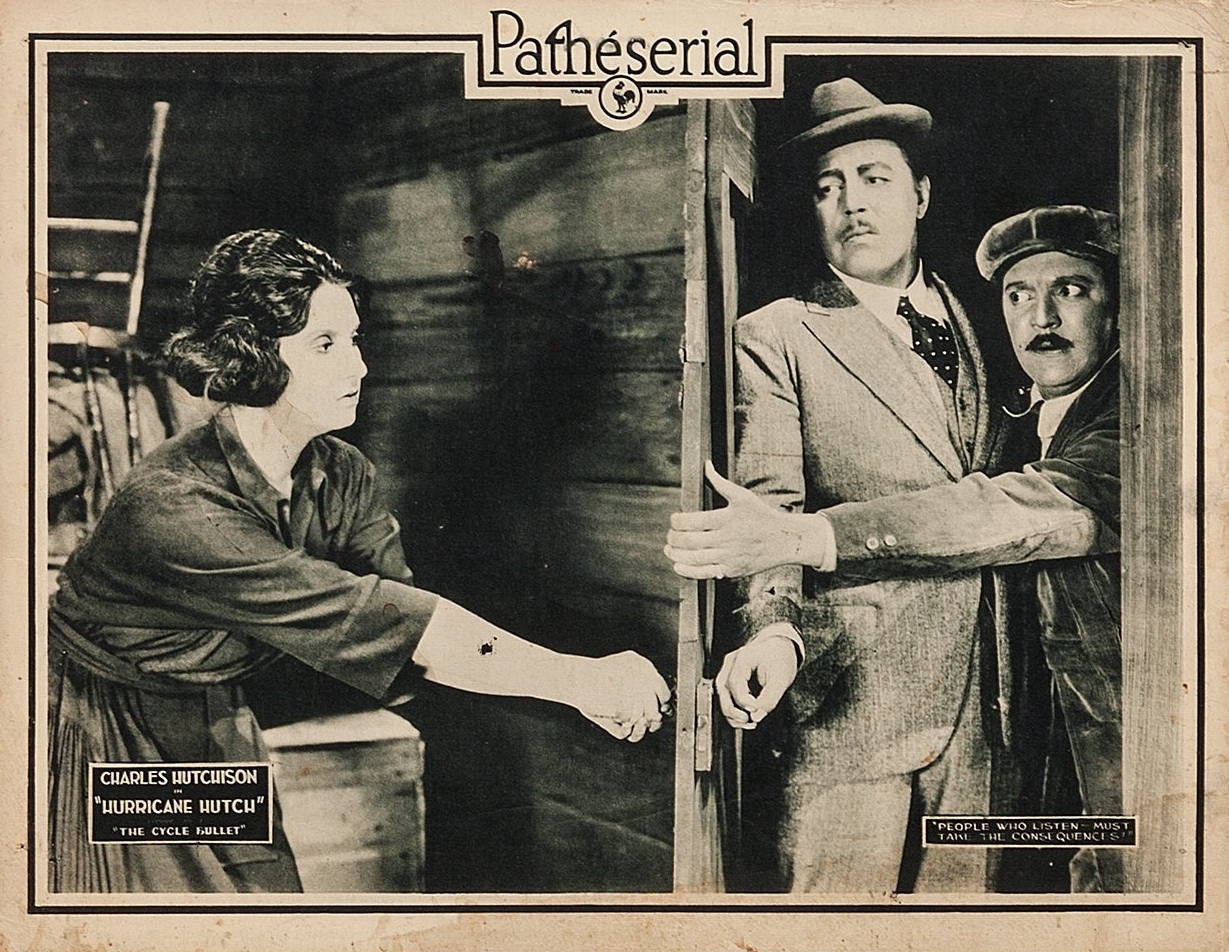 Lobby card for the American film serial Hurricane Hutch (1921).